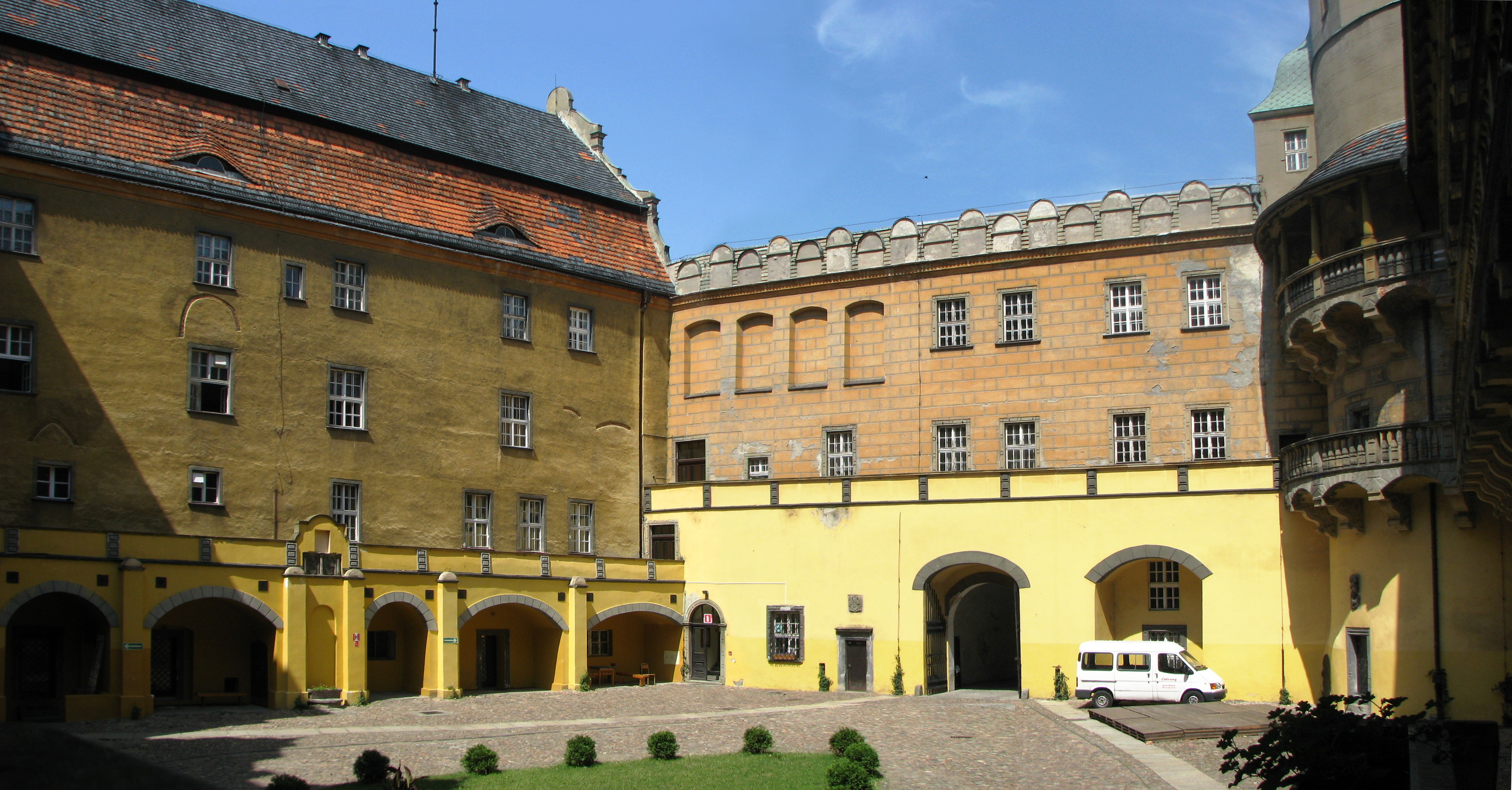 Oleśnica Castle.